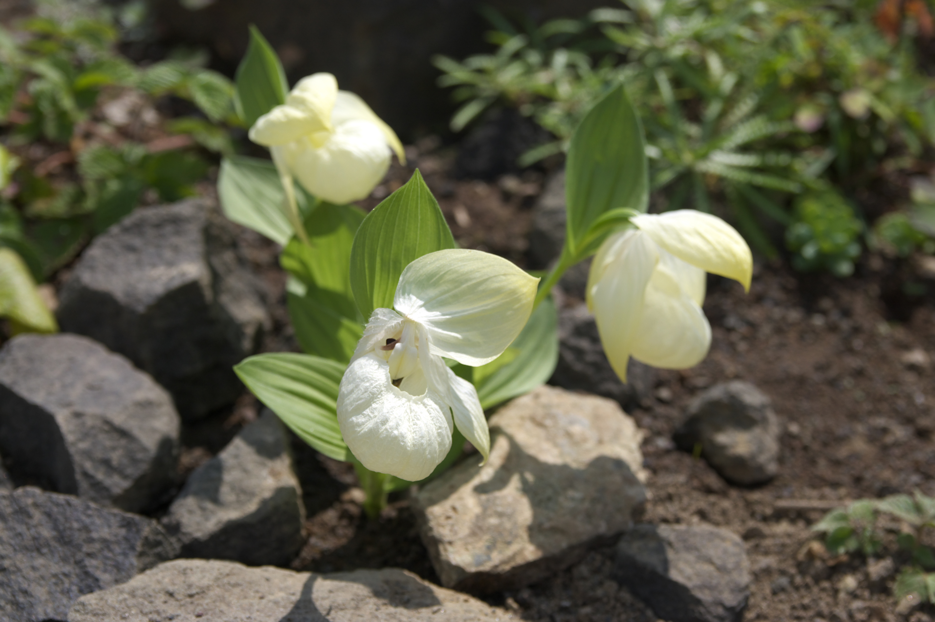 Cypripedium macranthum var. rebunense in Rebun Island, Japan.